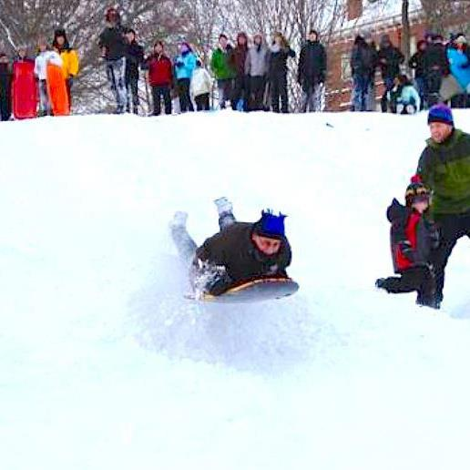 Anthony Monaco, President of Tufts University, sledding on the Tufts campus in 2013